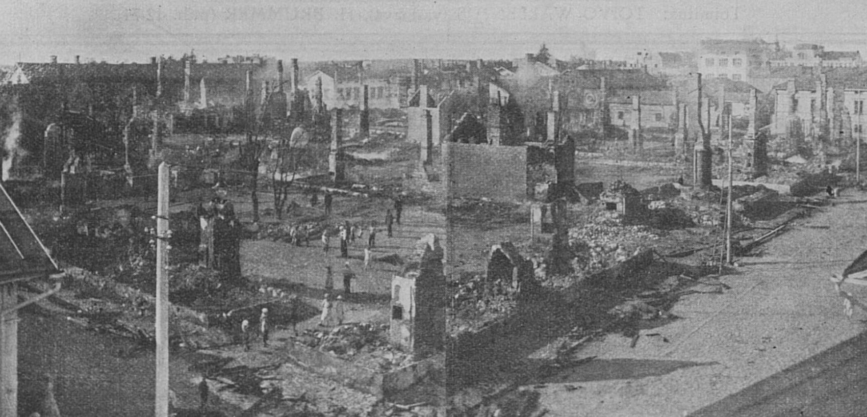 The city block in Oulu destroyed by fire on 19 July 1916. The block was later turned into the Mannerheim Park.